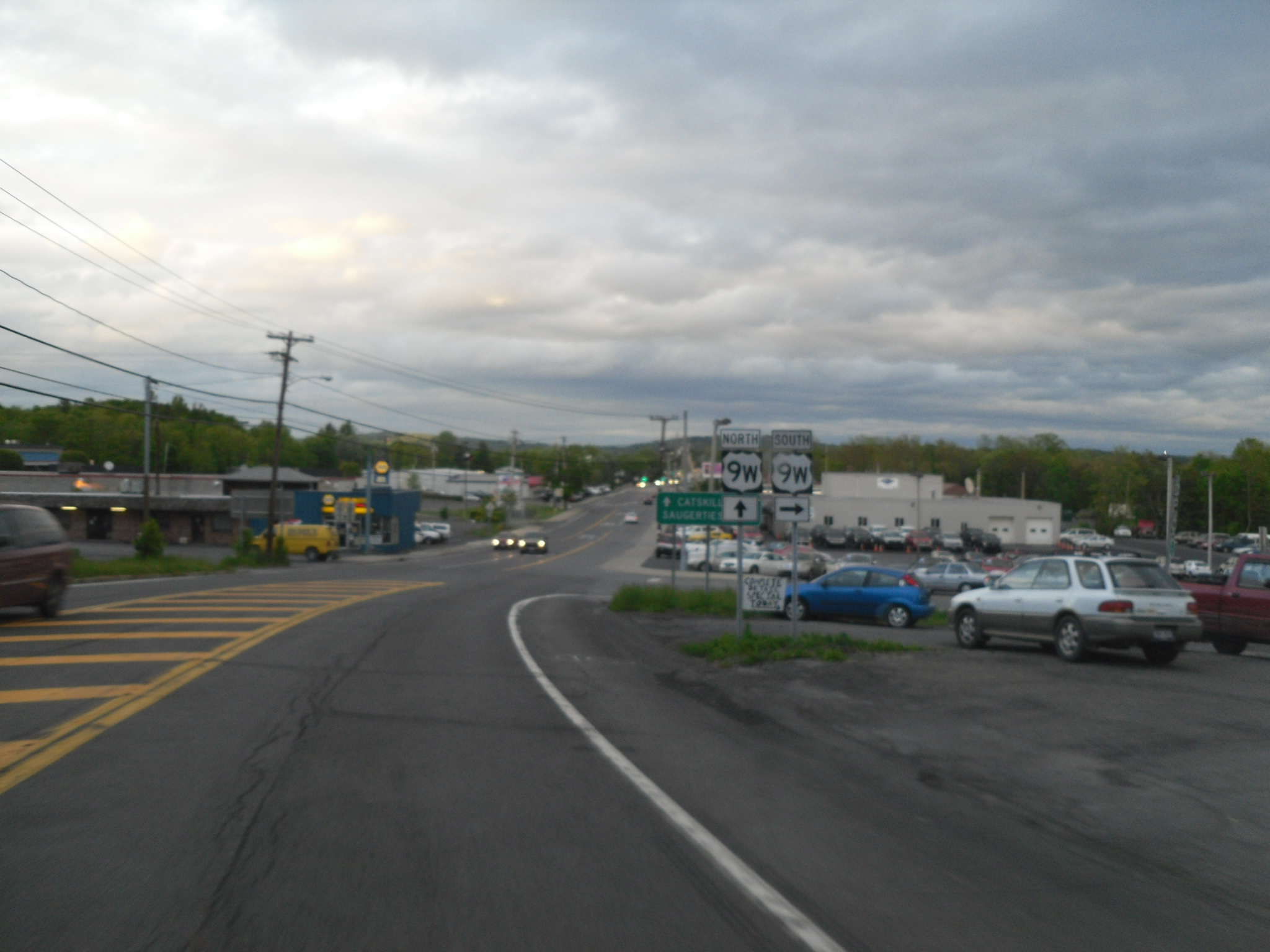 The eastern terminus of New York State Route 23A at U.S. Route 9W in Catskill.